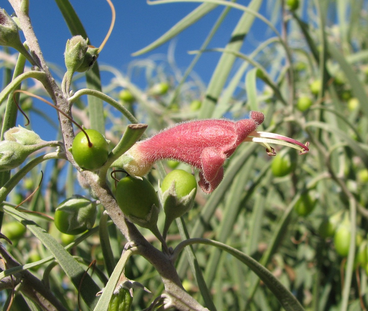 Eremophila longifolia, Royal Botanic Gardens Cranbourne, Victoria, Australia